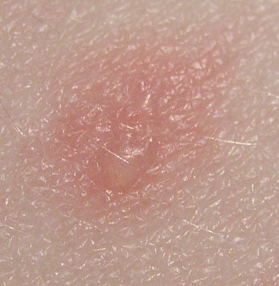 chickenpox blister, one day old: little blister on red ground. The blister is about 1 mm